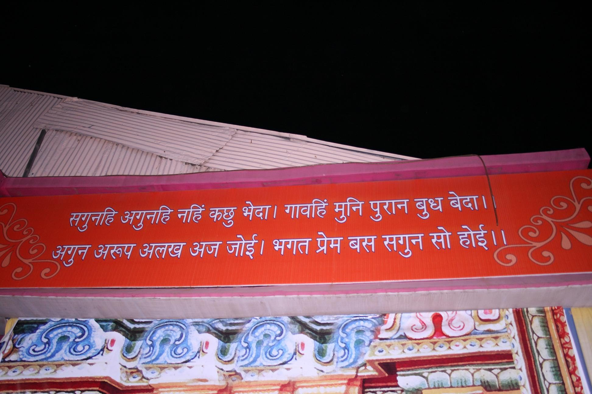 Two Chaupais from the Balakanda of Ramcharitmanas at the entrance of a temple in the city of Bhopal, India.